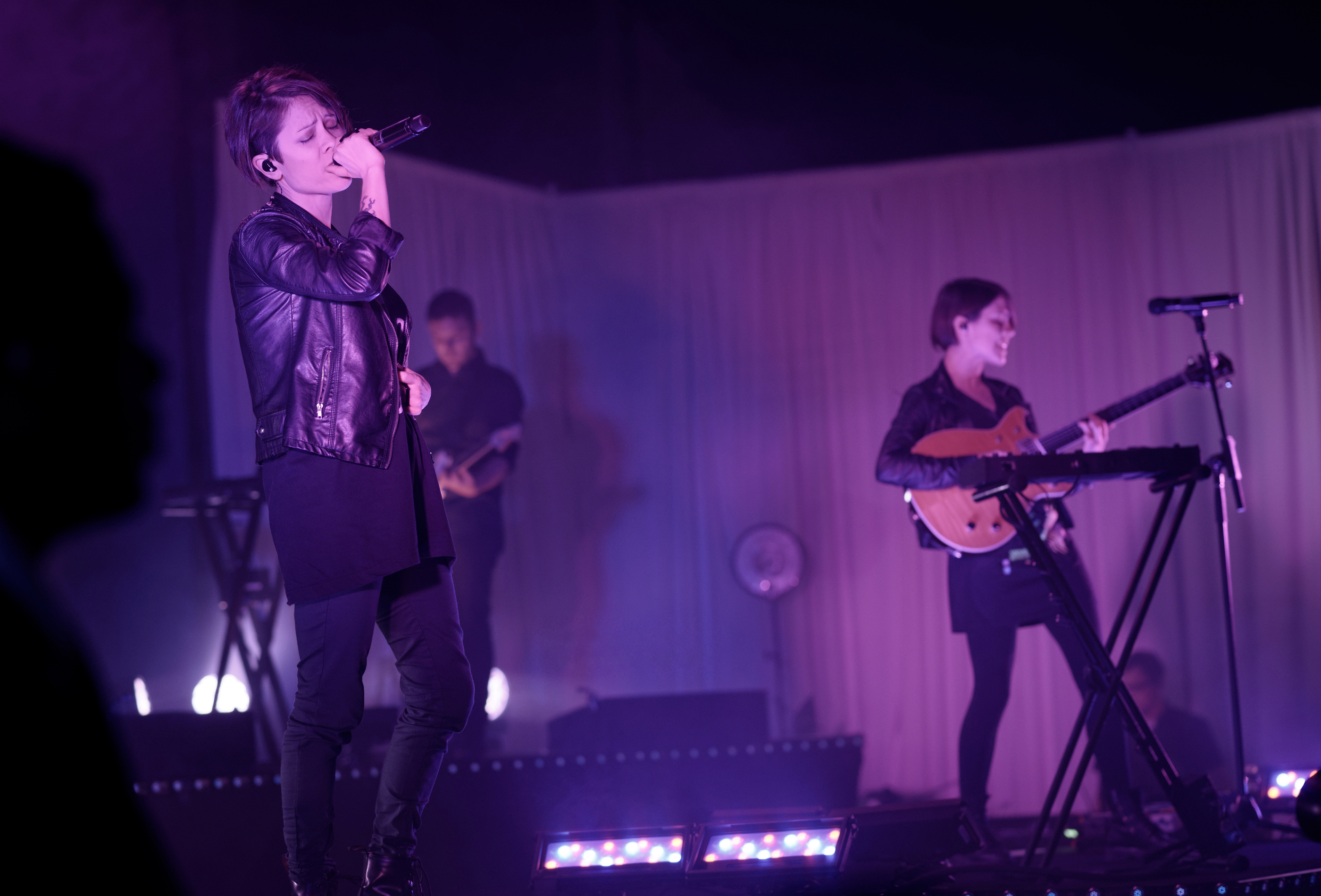 Tegan & Sara performing live in The Hangar on the O.C. Fairgrounds in Costa Mesa California on Wednesday November 19th, 2014. This was final Southern California show of the season in the Lexus Pop Up Concert series (#LexusPopUpConcerts), presented by Pandora.